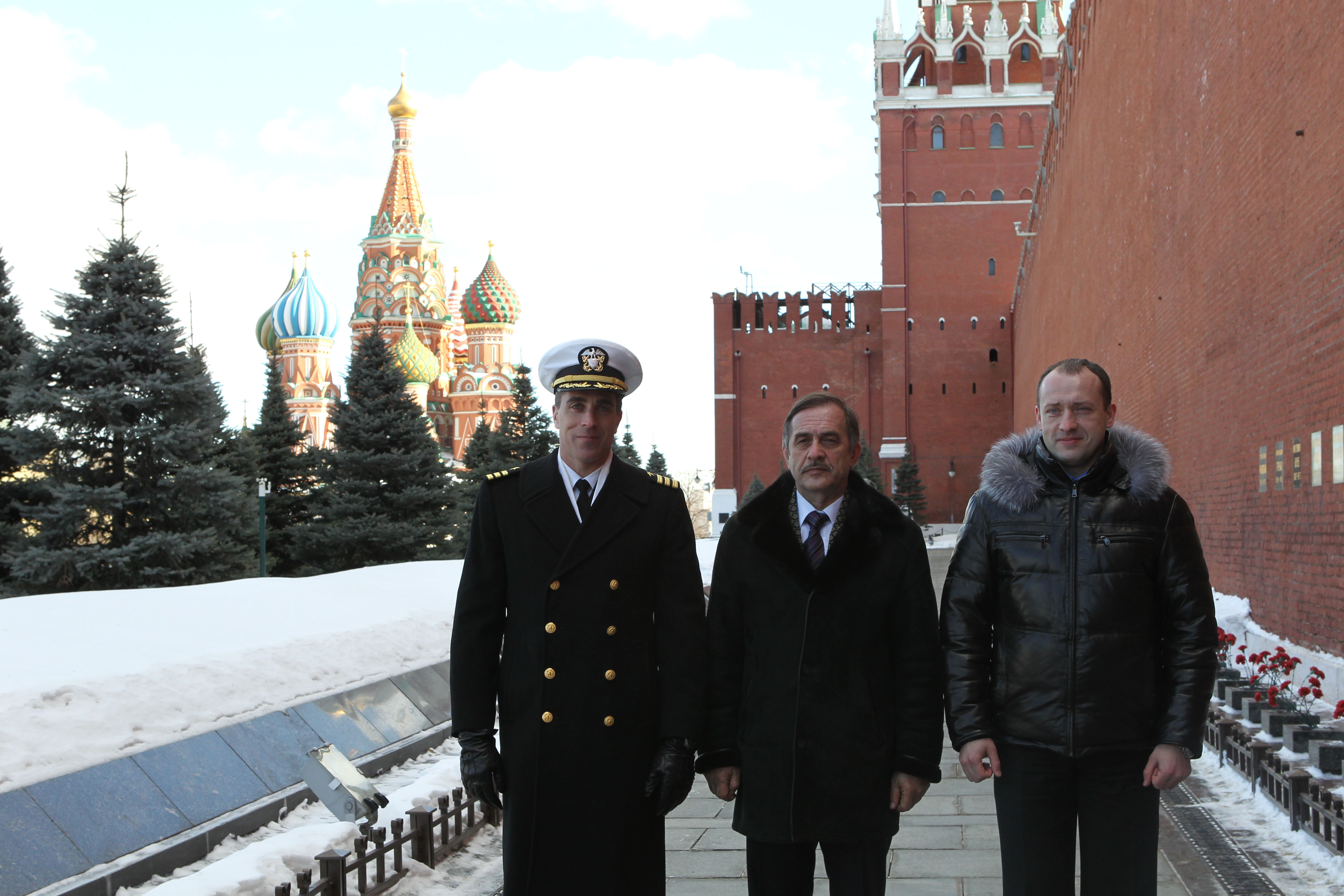 With famed St. Basil's Cathedral in the background, Expedition 35/36 Flight Engineer Chris Cassidy of NASA (left), Soyuz Commander Pavel Vinogradov (center) and Flight Engineer Alexander Misurkin pose for pictures at the Kremlin Wall March 7 during a traditional visit to Red Square where they laid flowers at the spot where Russian space icons are interred. Cassidy, Vinogradov and Misurkin will launch to the International Space Station March 29, Kazakh time, in their Soyuz TMA-08M spacecraft from the Baikonur Cosmodrome in Kazakhstan.